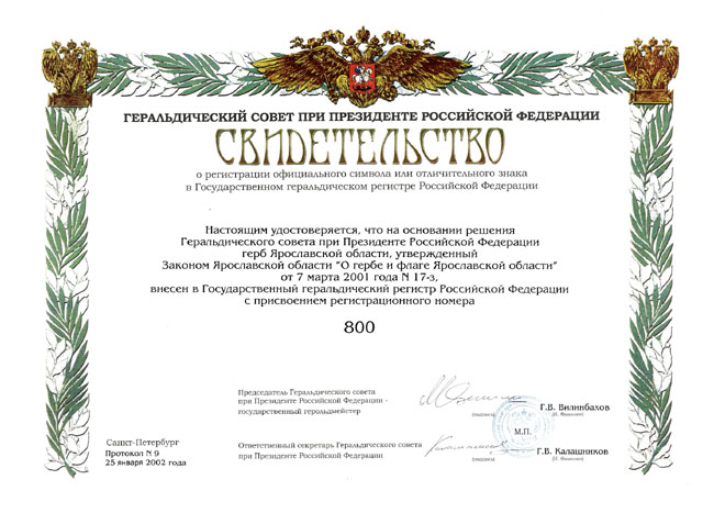 The certificate of registration of the coat of arms of Yaroslavl region in the State Heraldic Register of the Russian Federation